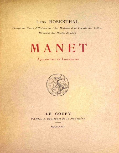 Print cover of Manet, aquafortiste et lithographe by Léon Rosenthal, published in Paris, by Le Goupy in 1925.